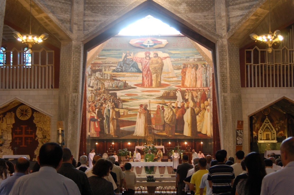 Impressions Wikimania 2011 Nazareth-Galilee Tour